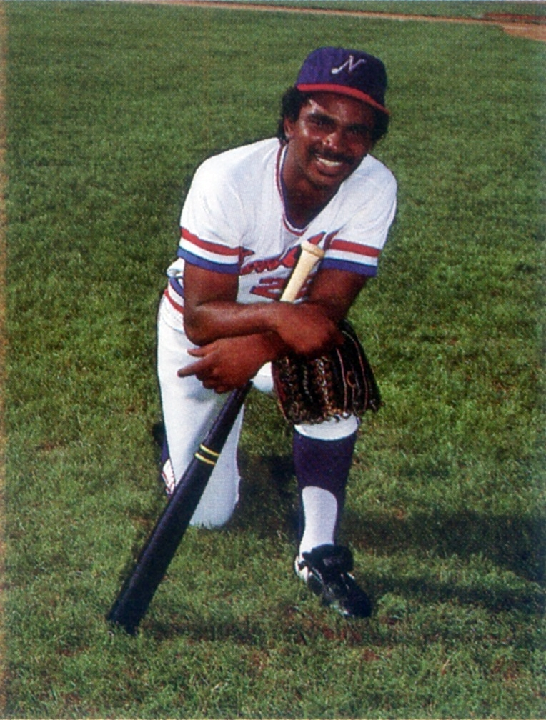 Outfielder Darrell Brown of the 1985 Nashville Sounds Minor League Baseball team of the American Association